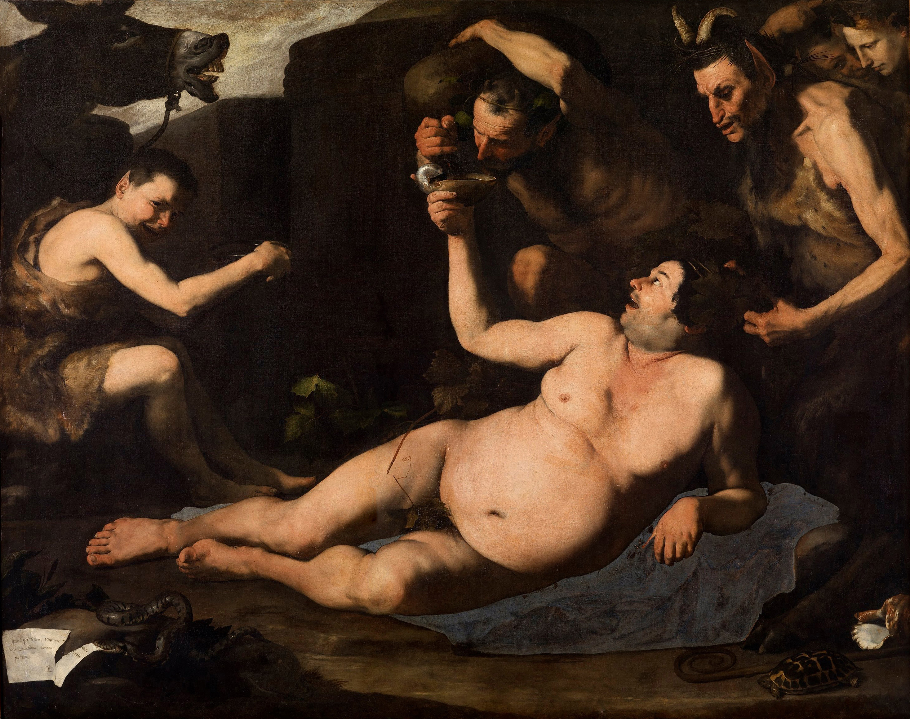 Silenus reclining in front of Castel Sant'Angelo